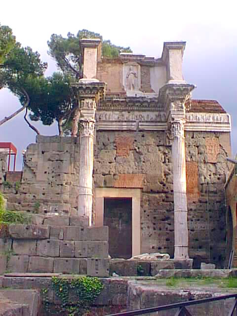 Rome, Forum Nervae, the "Colonnacce" (remains of colums against the internal wall of Forum Nerva.